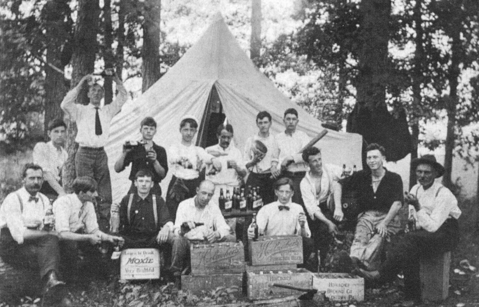 On July 4th, 1913, this group of men took several cases of Horlocher Beer with them for their holiday outing in a grove. Note the case of Moxie, a strong-tasting carbonated soft drink that was promoted as a healthful beverage with medicinal benefits.